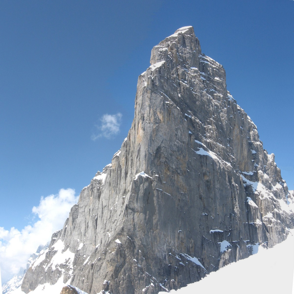 Titlis from Grassen biwak